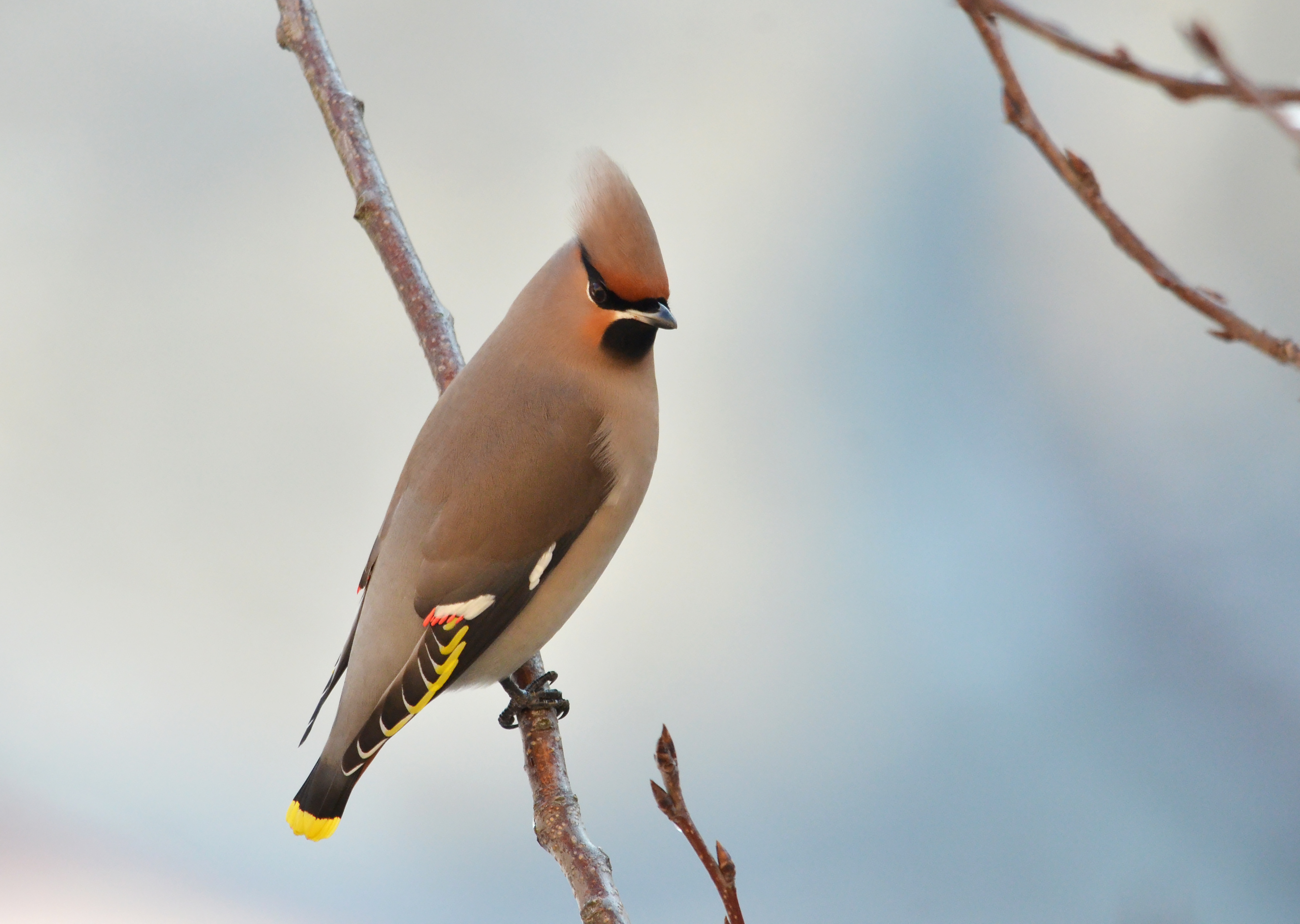 Waxwing Bombycilla garrulus, Saint Petersburg, Russia